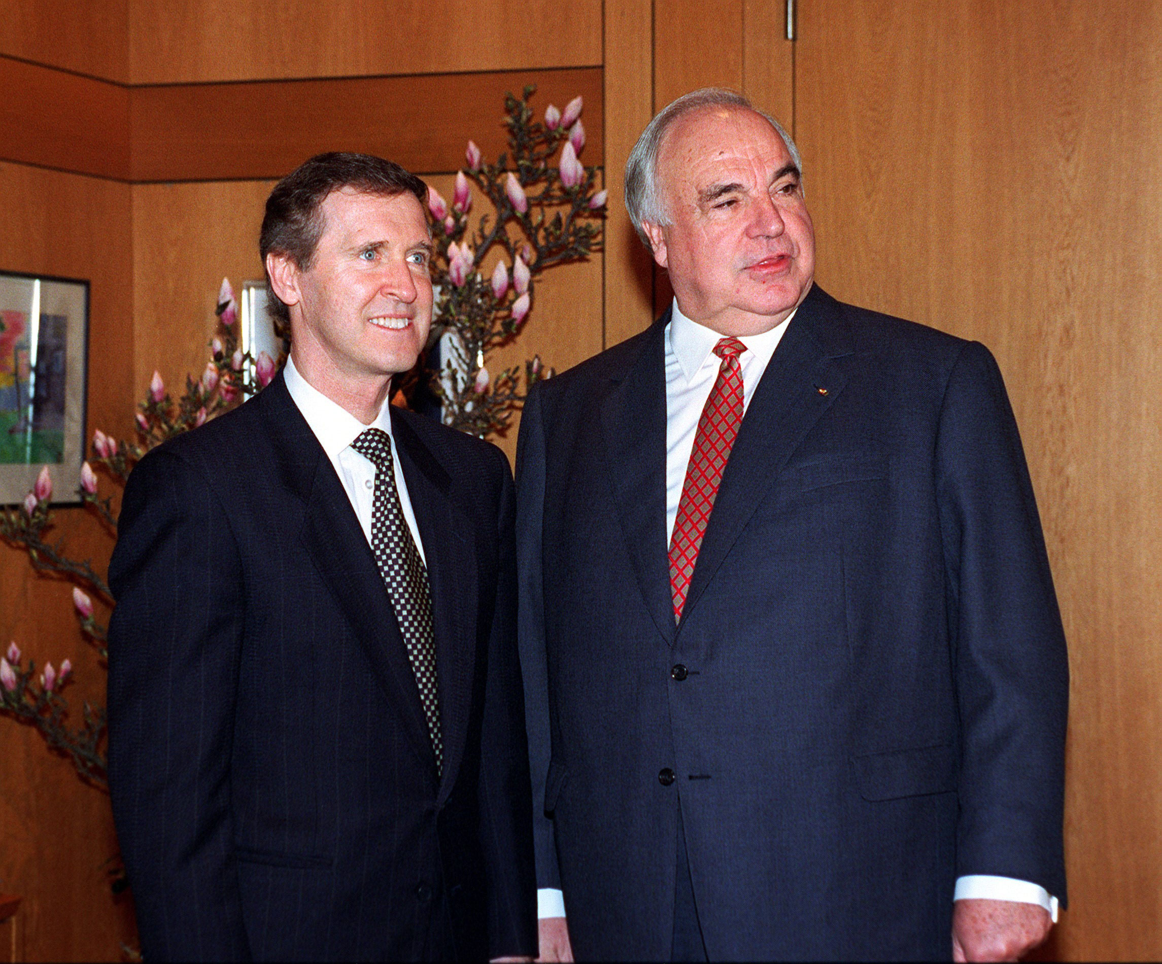 Secretary of Defense William S. Cohen (left) and Chancellor Helmut Kohl (right) of the Federal Republic of Germany, pose for photographers prior to their meeting in Bonn on March 5, 1997.